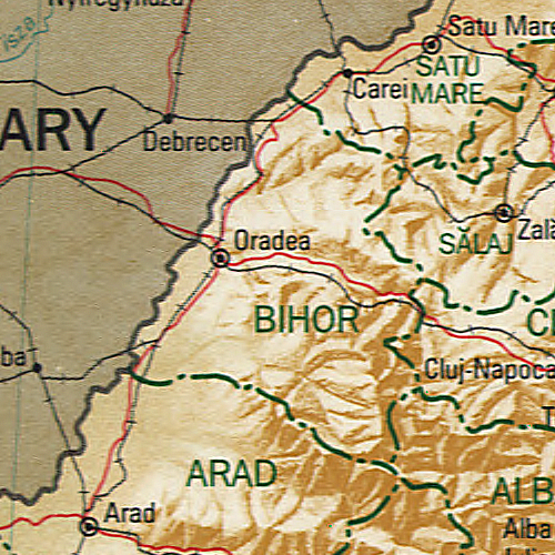 Map of Bihor County, Romania.